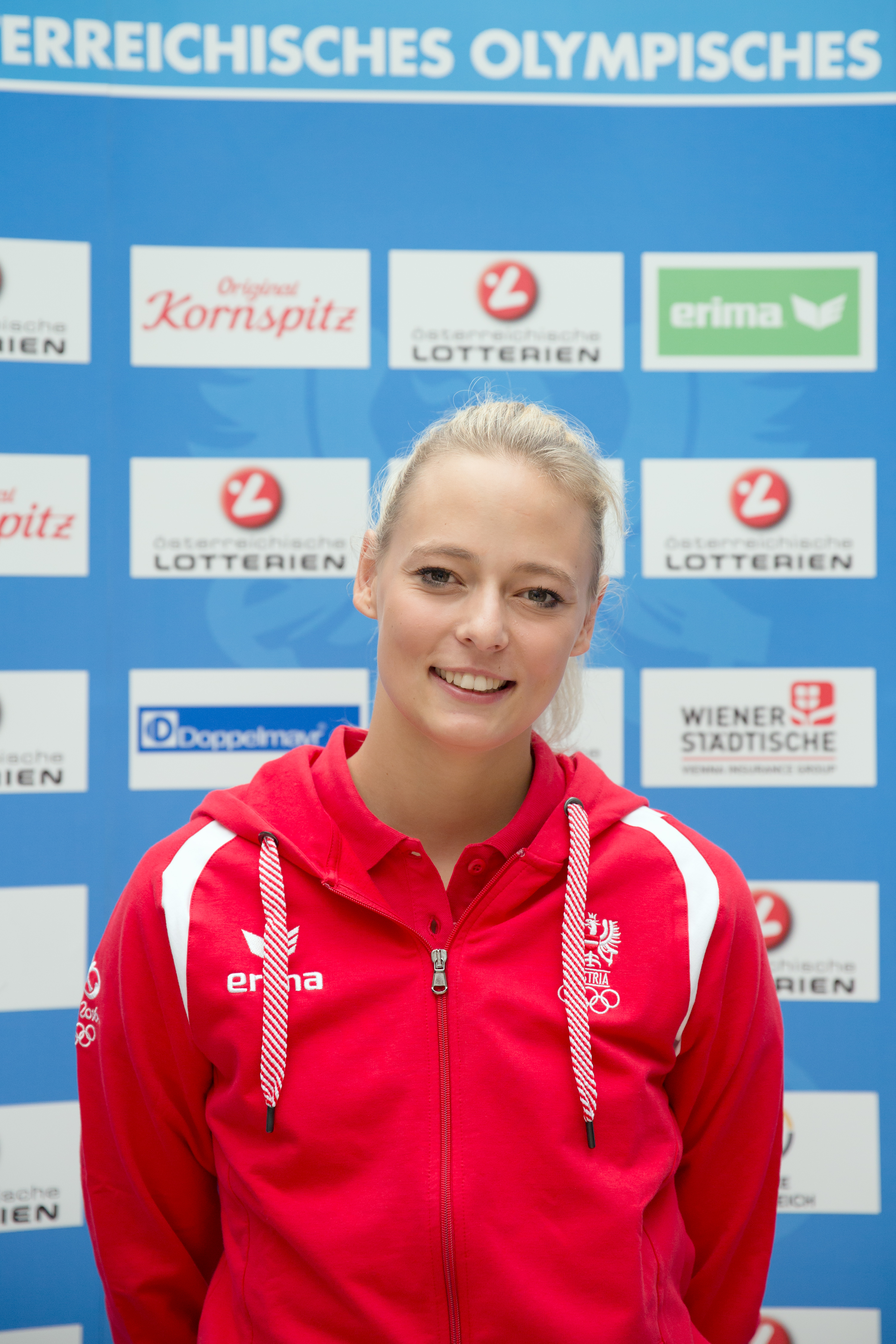 Nicol Ruprecht at the hand-out of the Austrian teams official attire for the 2016 Summer Olympics (Marriott, Vienna).